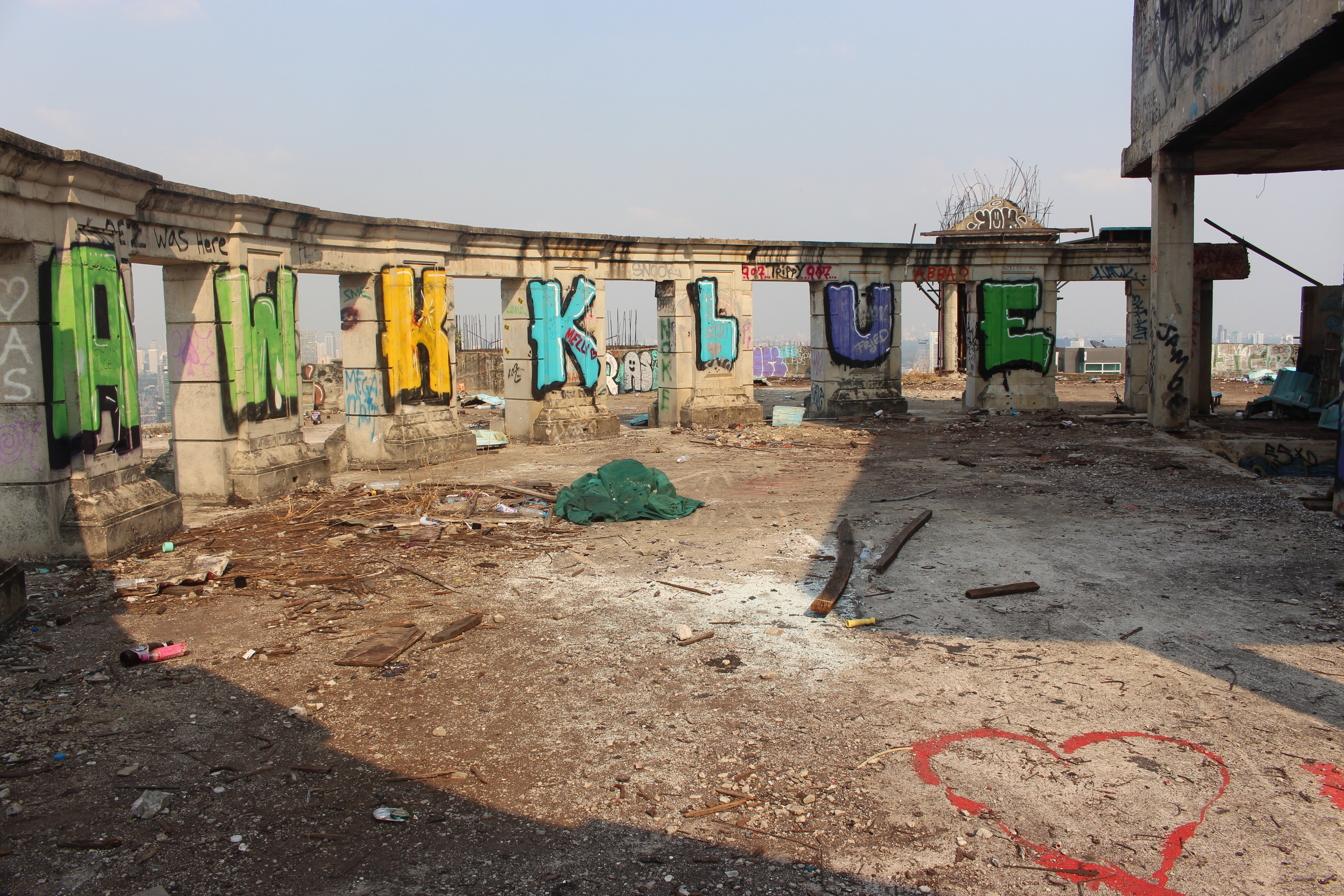 On top of the Sathorn Unique Tower/Ghost Tower, Bangkong, Thailand.